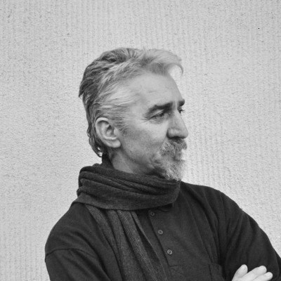 Goran Gatarić, Serbian painter